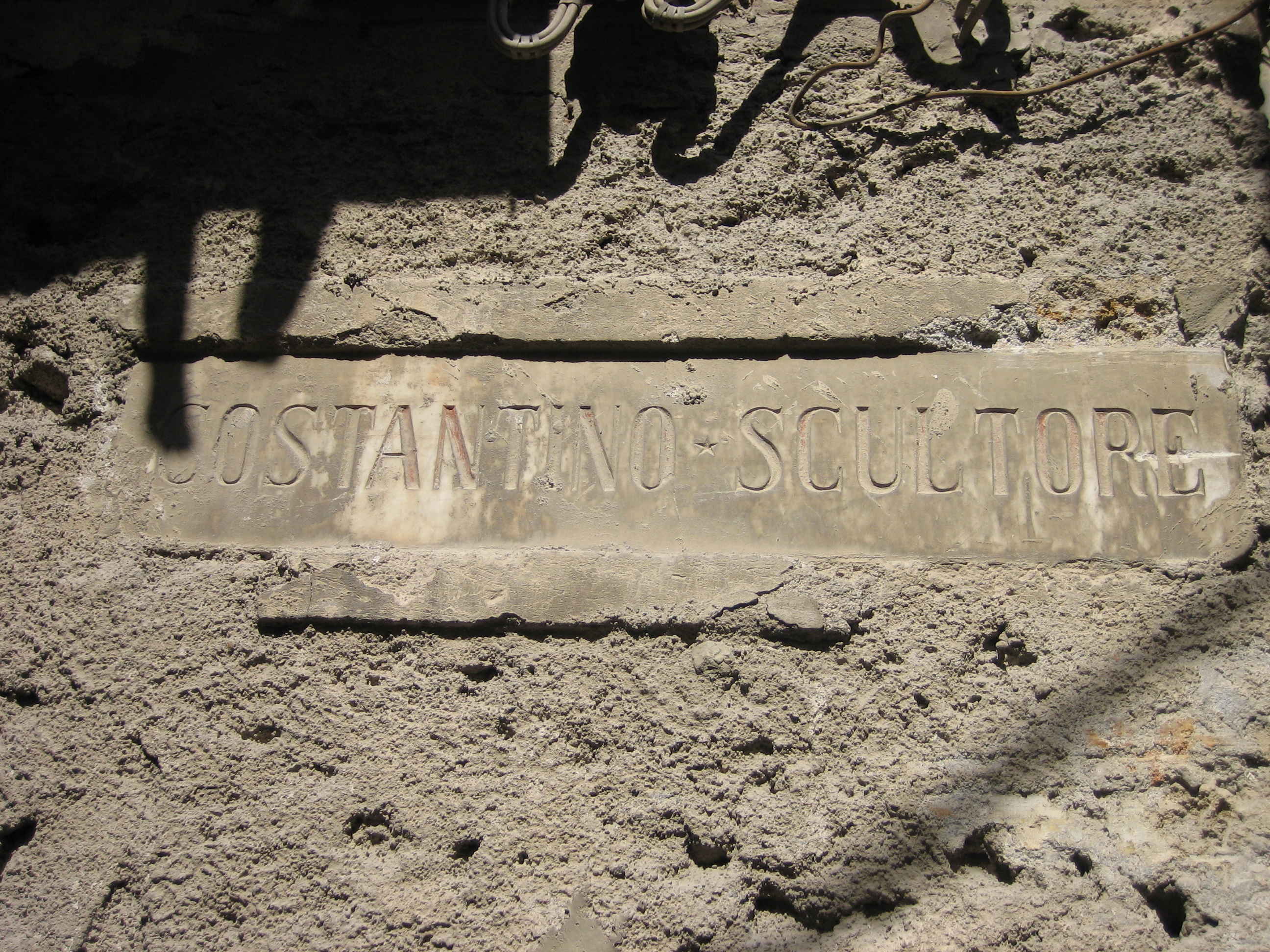 House of Domenico Costantino